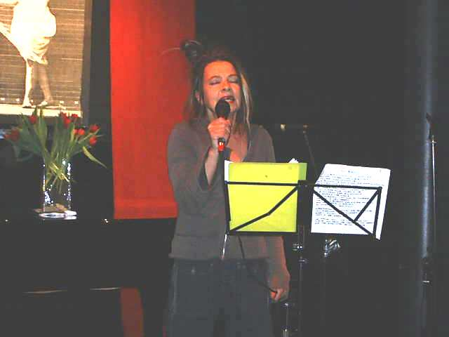 Eve Libertine pictured at the Hackney Vortex Club, 26 jan 2006.